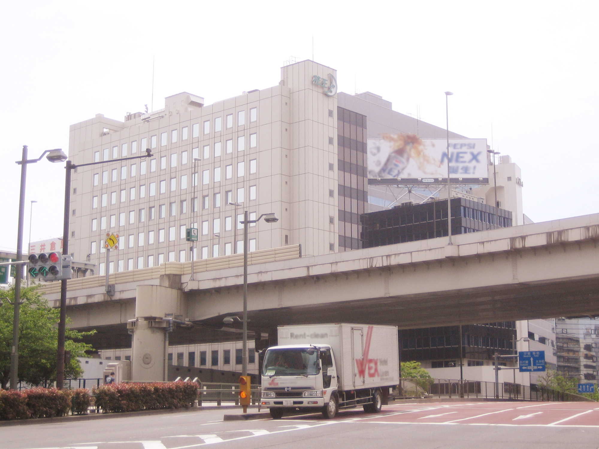 Kao Corporation (花王株式会社 Kaō), in Chuo, Tokyo, Japan